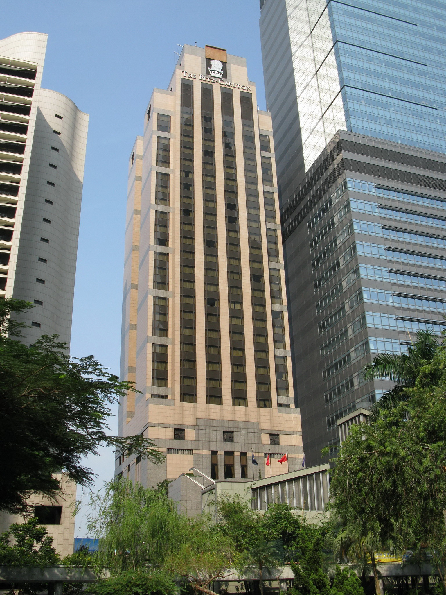 麗嘉酒店 (已拆卸) The Ritz-Carlton, Hong Kong (demolished)